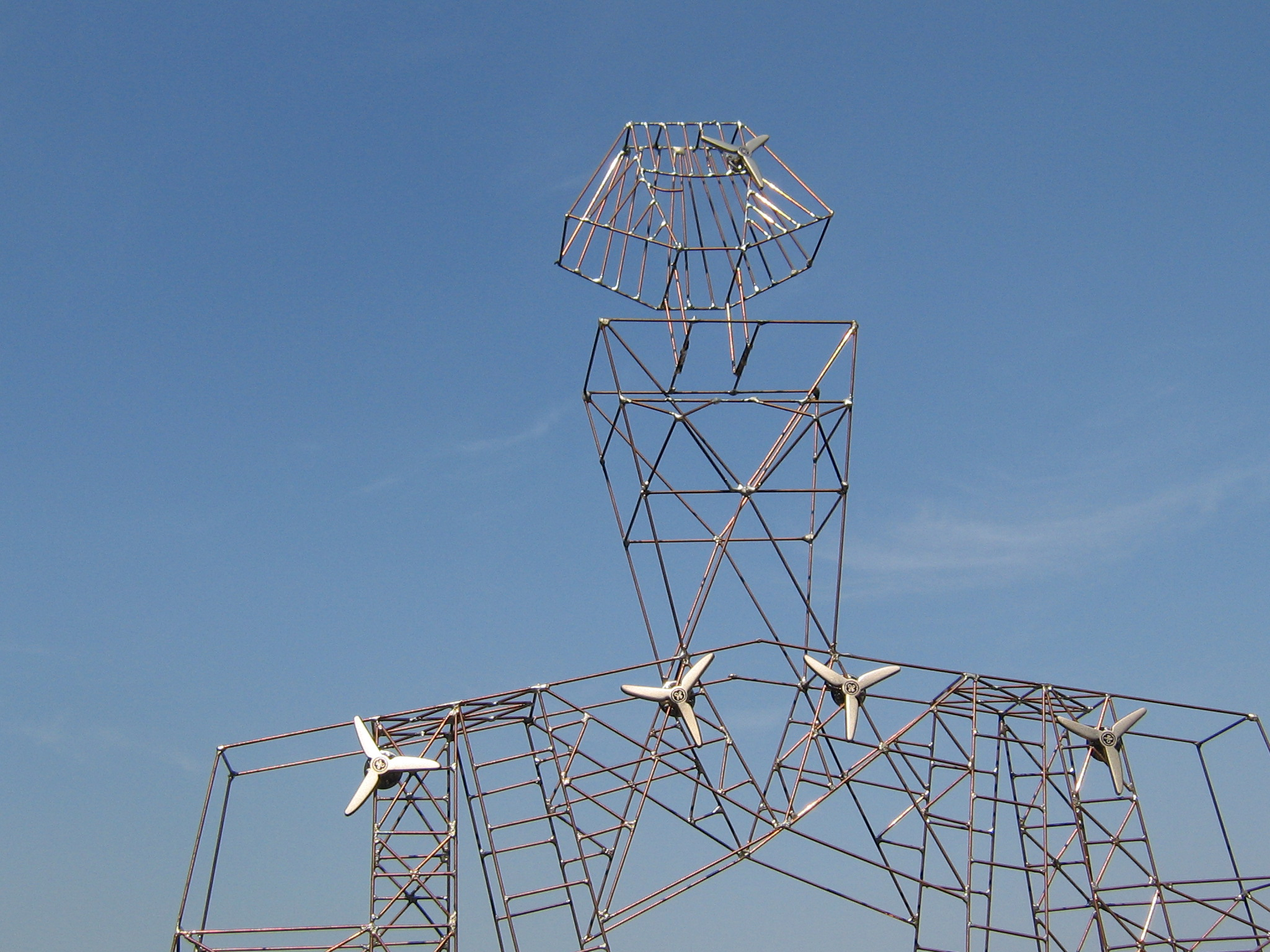 Wind Art – "Menina" model of a landscape wind tower. As an environmental artist, Elena Paroucheva proposes a new solution for overhead structures allowing us to live in a more pleasant environment and bring art to all [?] covered. New forms of media for wind turbines: Sculptures – Aeolian. For an innovative aesthetic and environmental impact, I propose a radical solution: instead of a large propeller on a pole, sculptures that are small wind turbines. This allows you to personalize, humanize the landscape. Wind turbines, like all air network need to be high to work. My approach is to treat the support of wind turbines. These new sculptures – wind towers are: ladies, birds, flowers, people, animals and abstract forms that will be installed alone or in groups in a natural landscape or in urban or rural areas.